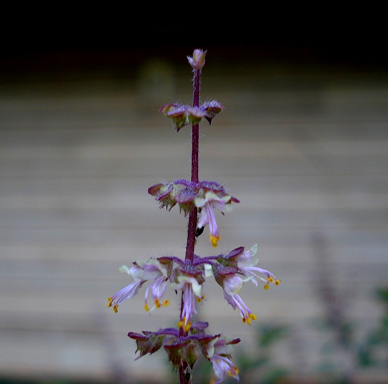 Tulasi Flower